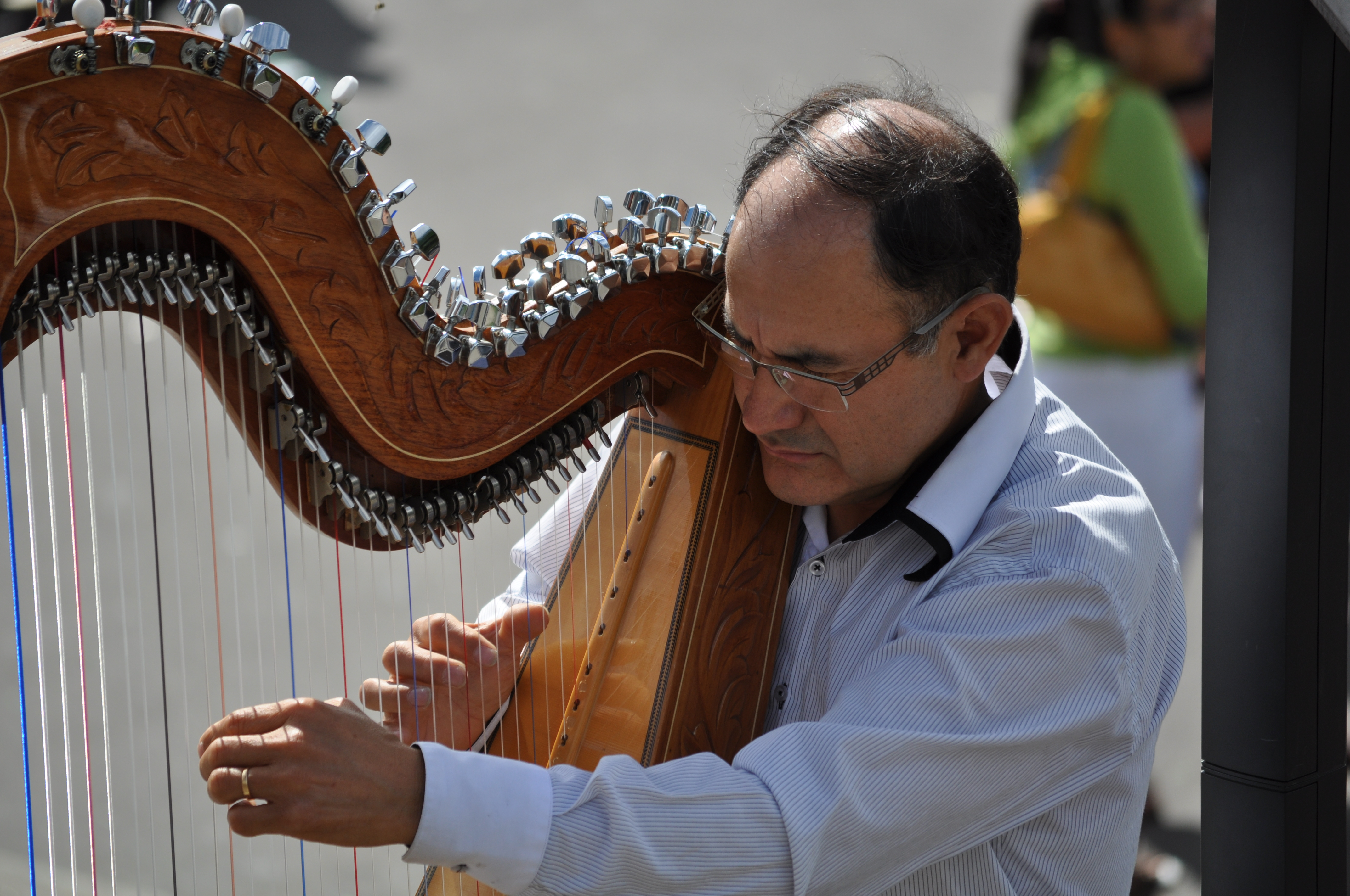 Street musician in Montmartre, Paris